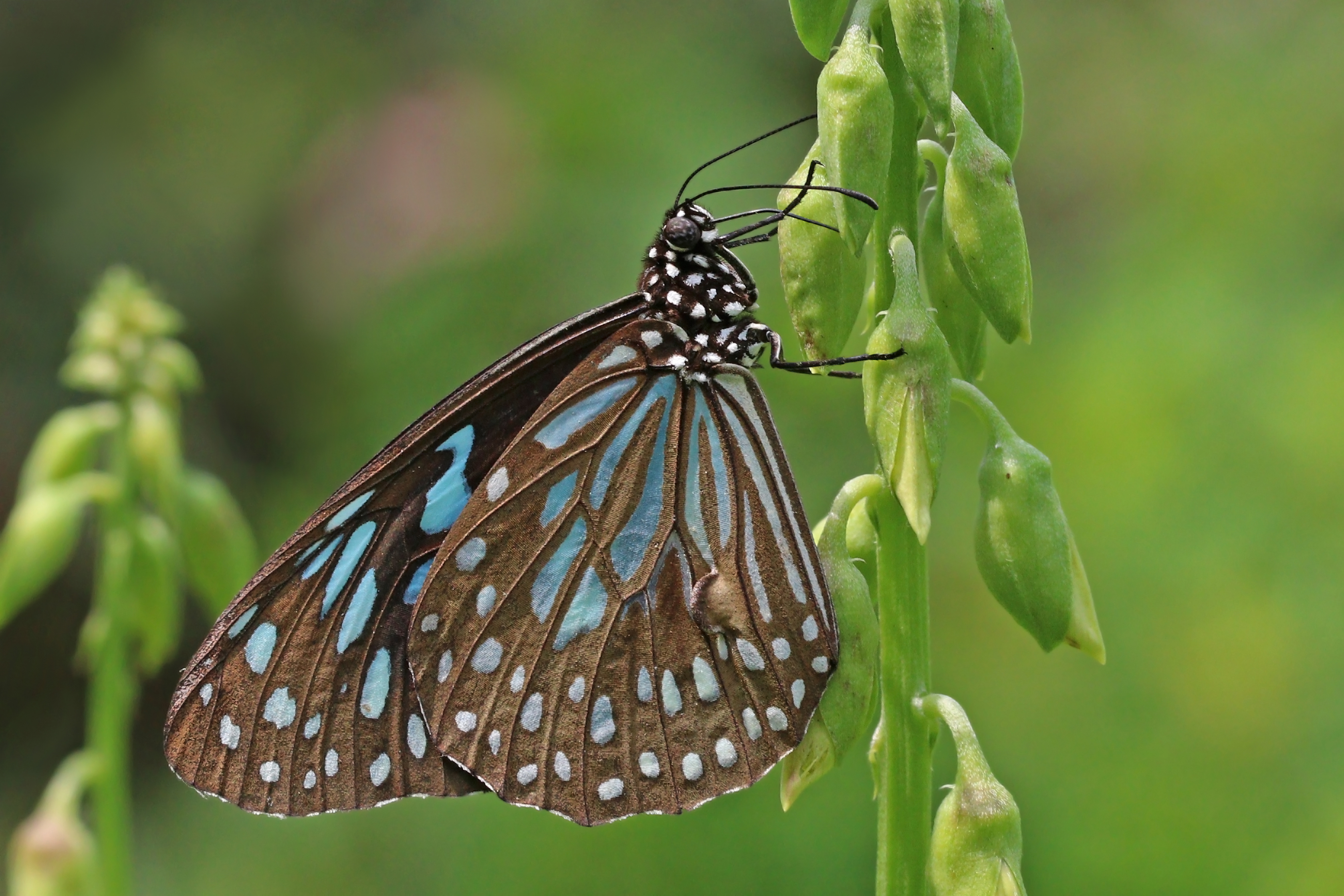 Dark blue tiger (Tirumala septentrionis dravidarum) male, Kumarakom, Kerala, India